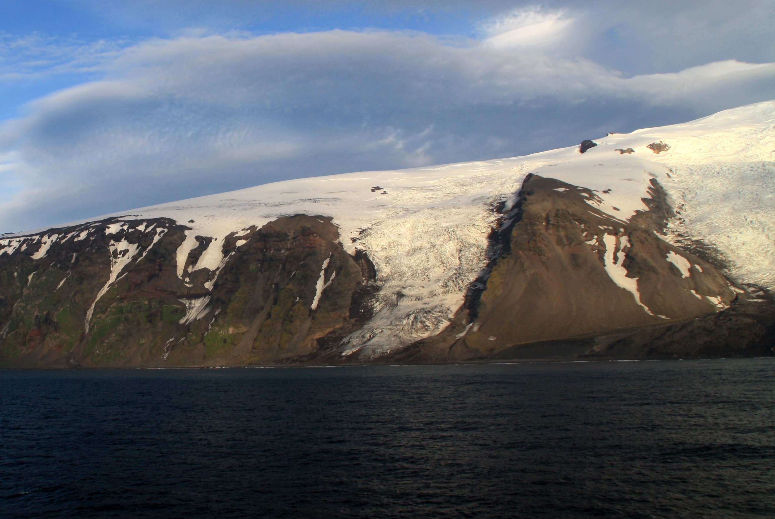 Svend Foyn Glacier, Jan Mayen.